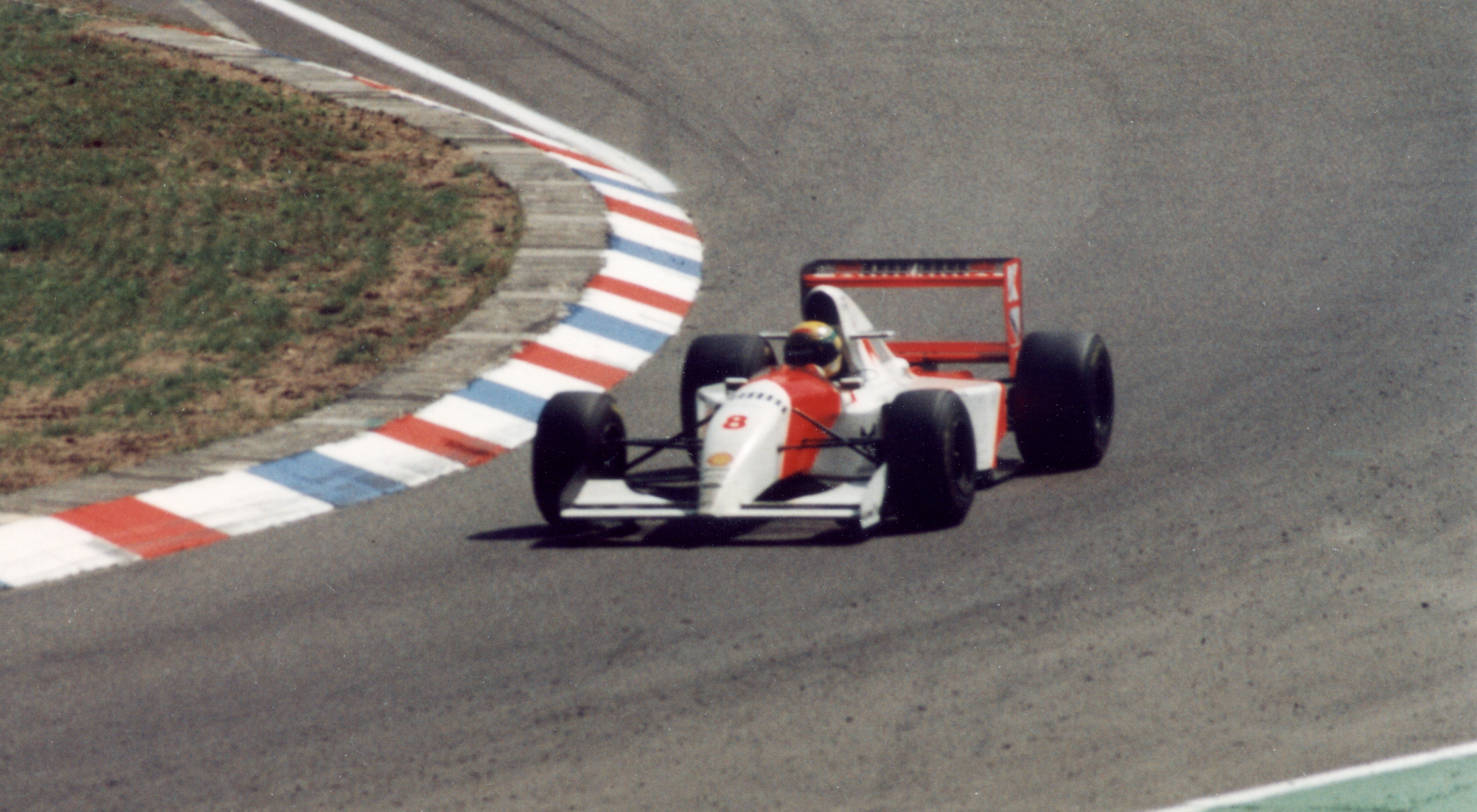 Ayrton Senna at Hockenheim GP 1993 (cropped photo)